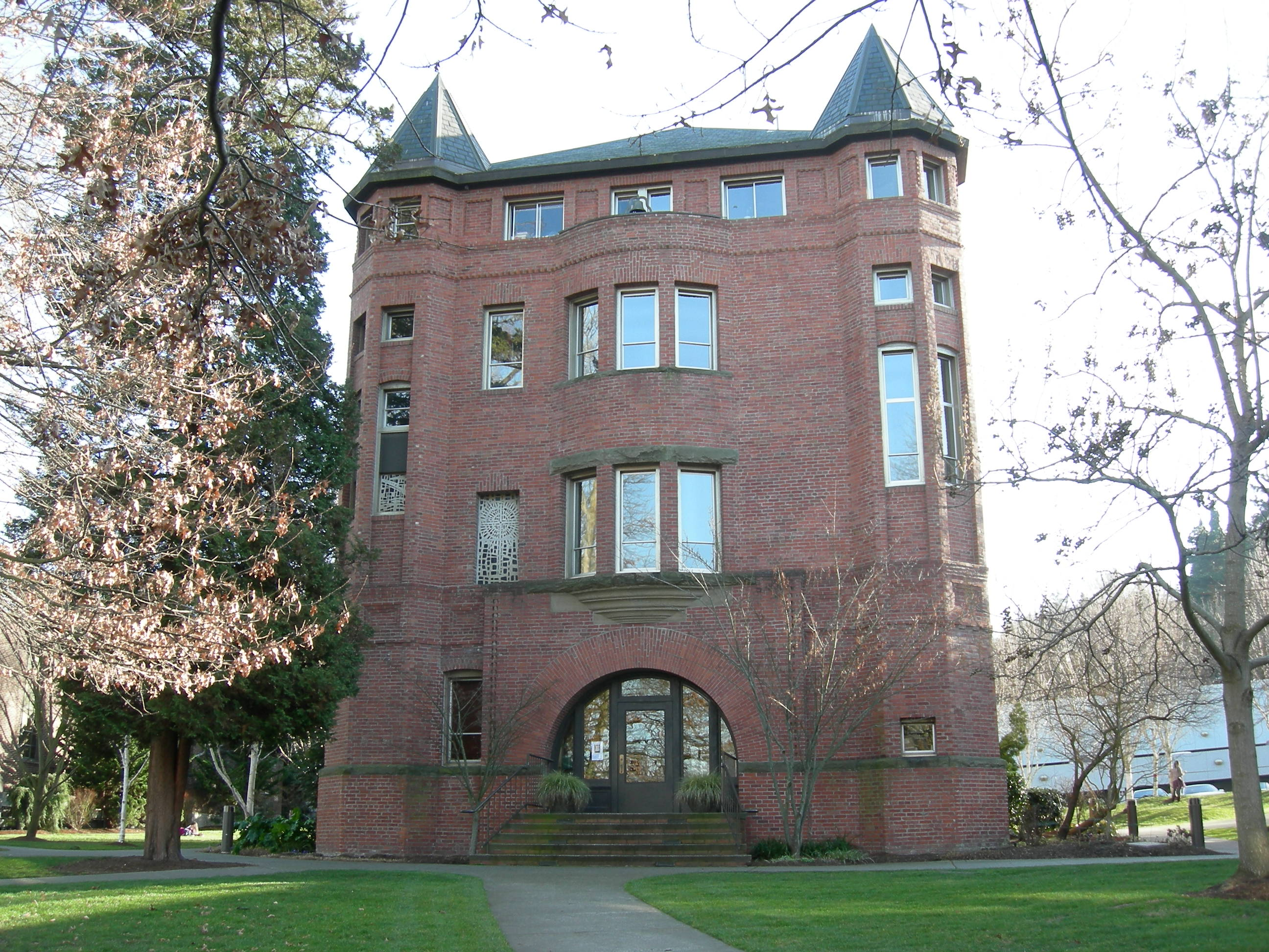 Alexander Hall (theology building) Seattle Pacific University, Seattle, Washington.